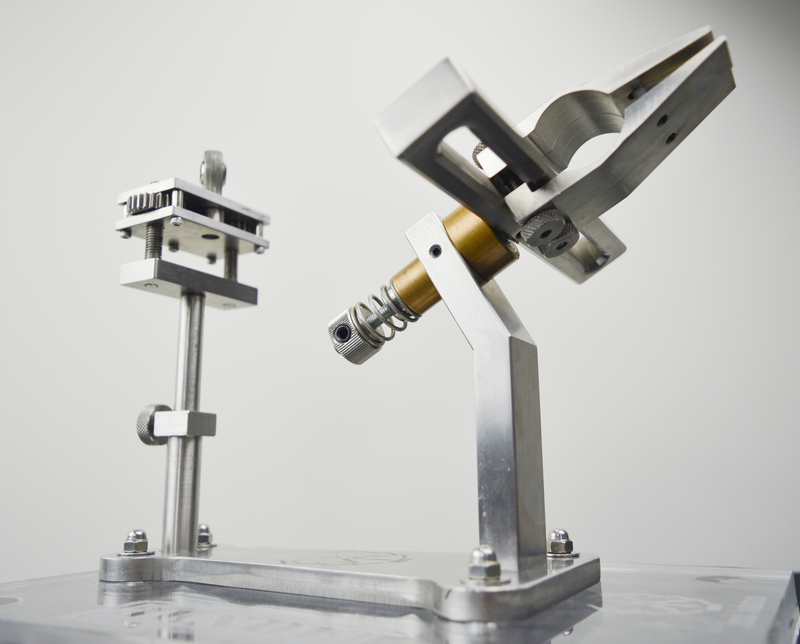 jende knives sharpening jig